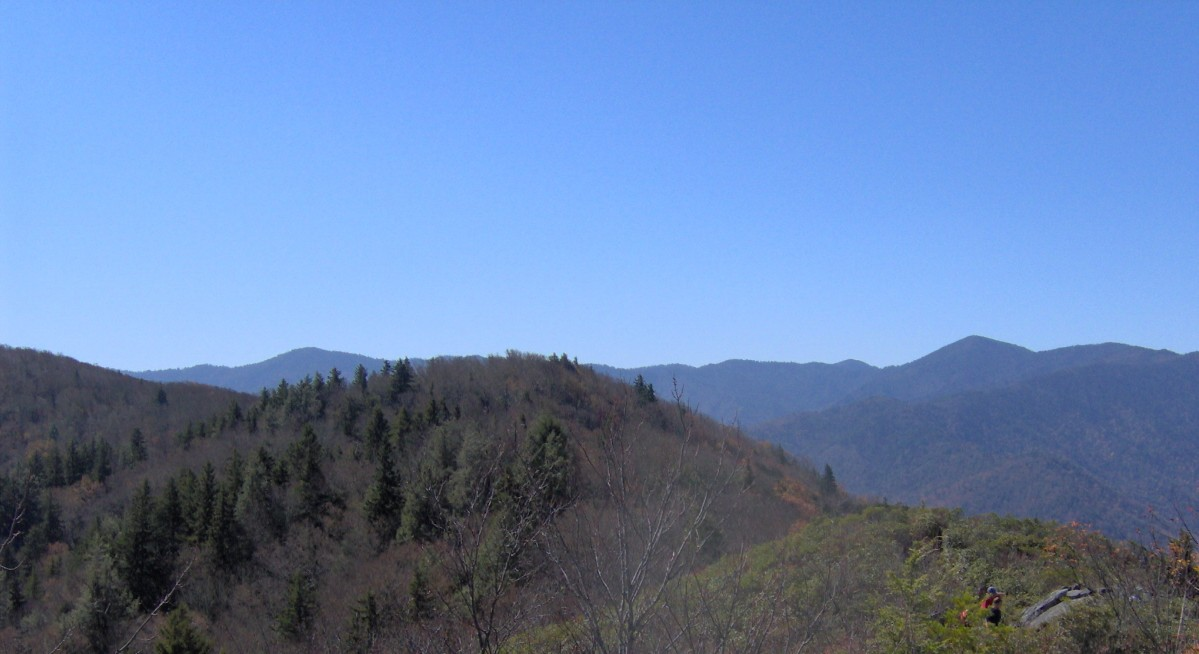 View of the Eastern Great Smoky Mountains, looking southwest from the lookout atop Mt. Cammerer (el. 4,928 feet/1,502 meters). Luftee Knob is the prominent peak on the left. Mt. Guyot is the prominent peak on the right. Mt. Chapman can be seen just left of Guyot, with Tricorner Knob just left of Chapman (Chapman is further away). Old Black is the blunt peak to the right of Guyot.